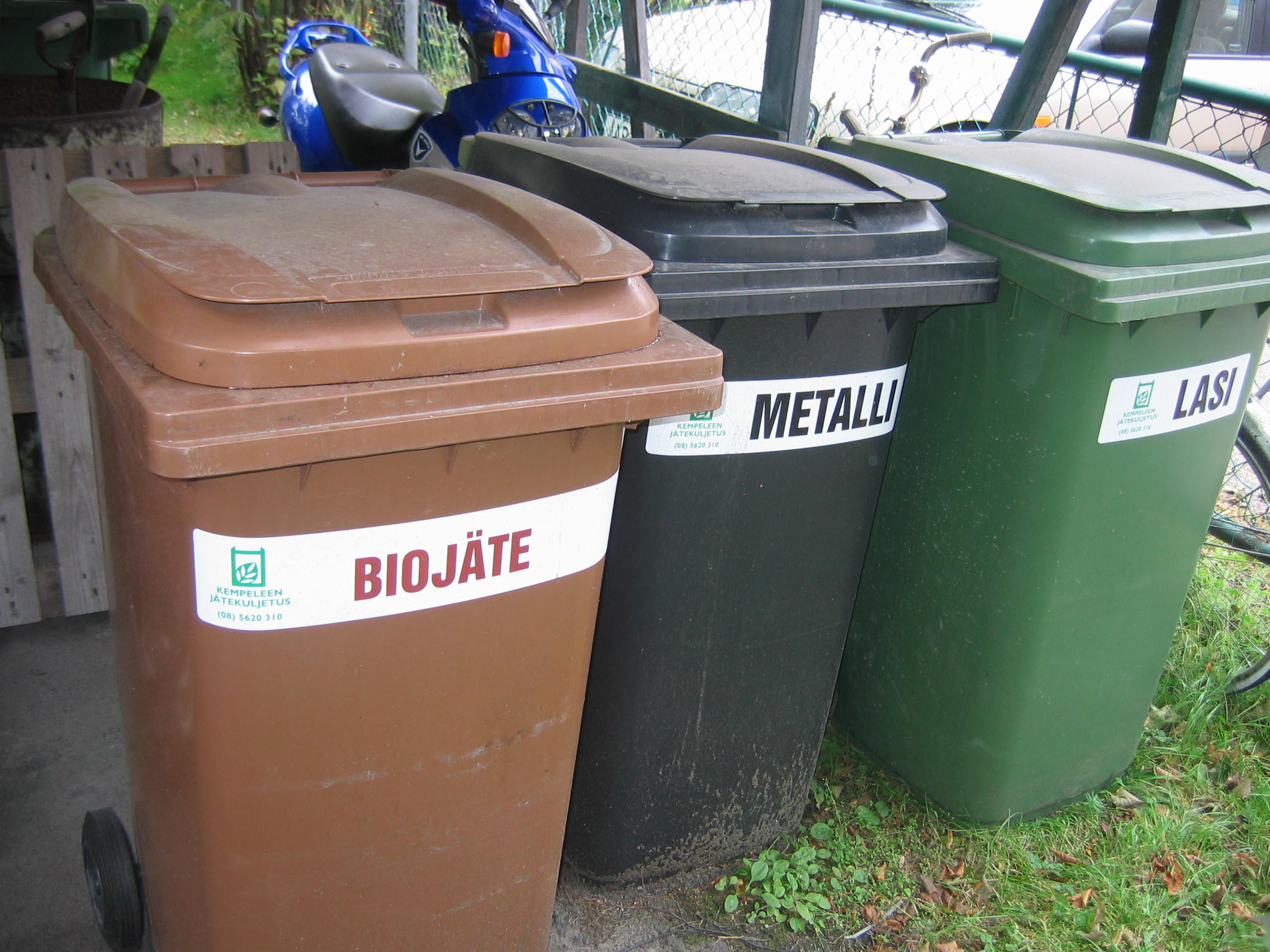 Household waste cans for circulating biological, metal and glass waste in a Finland.